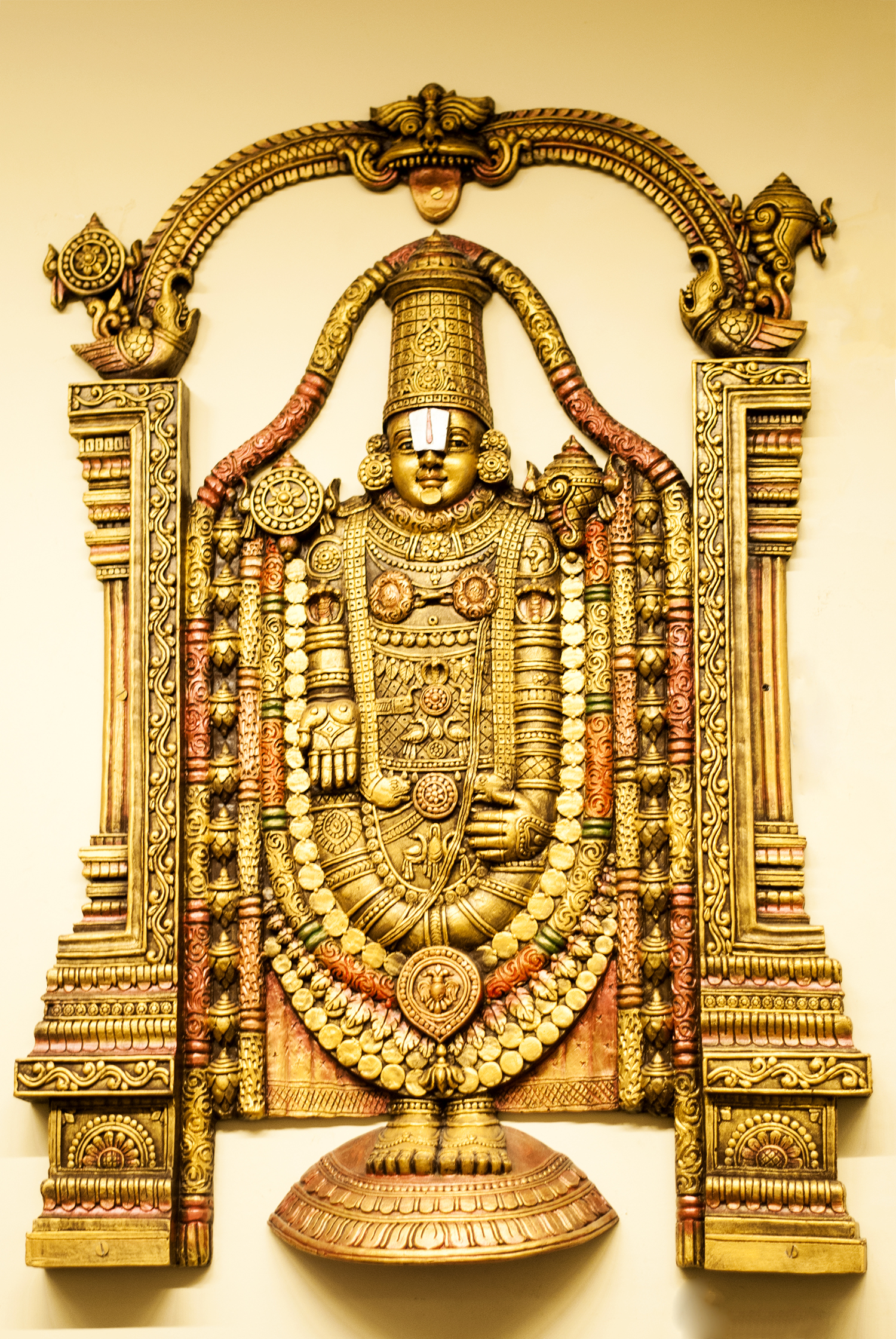 Venkateswara